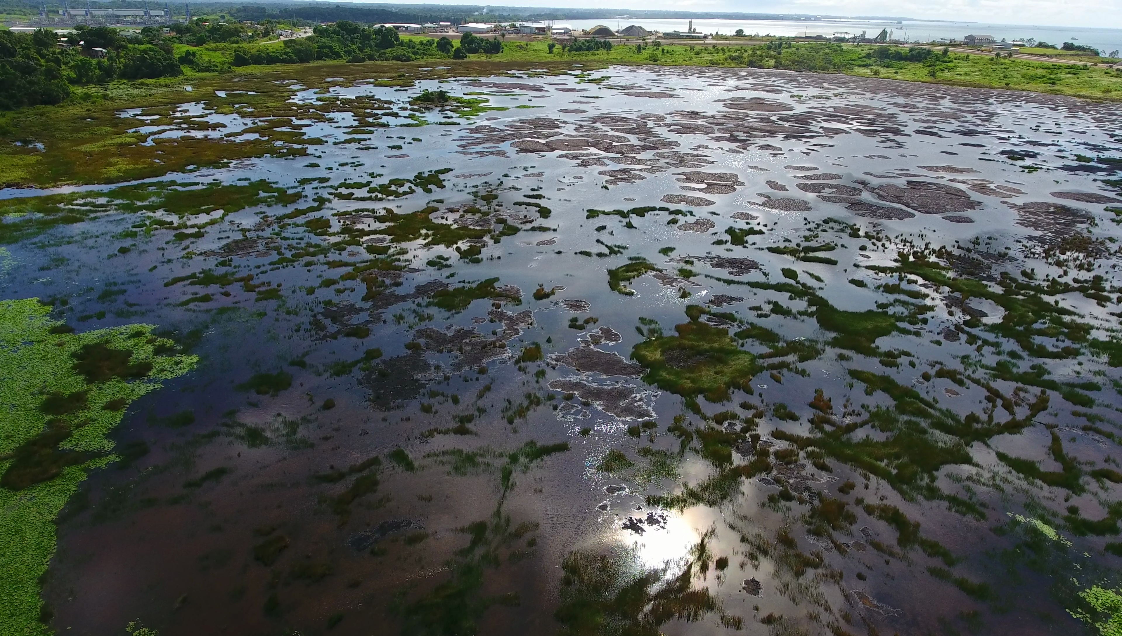 La Brea Pitch Lake, La Brea, Siparia, Trinidad and Tobago. Photo taken as part of the Southern Trinidad Aerial Photo Project, a small project sponsored by WMDE. Drone used: DJI Phantom 4. Snapshot taken from video footage via VLC.